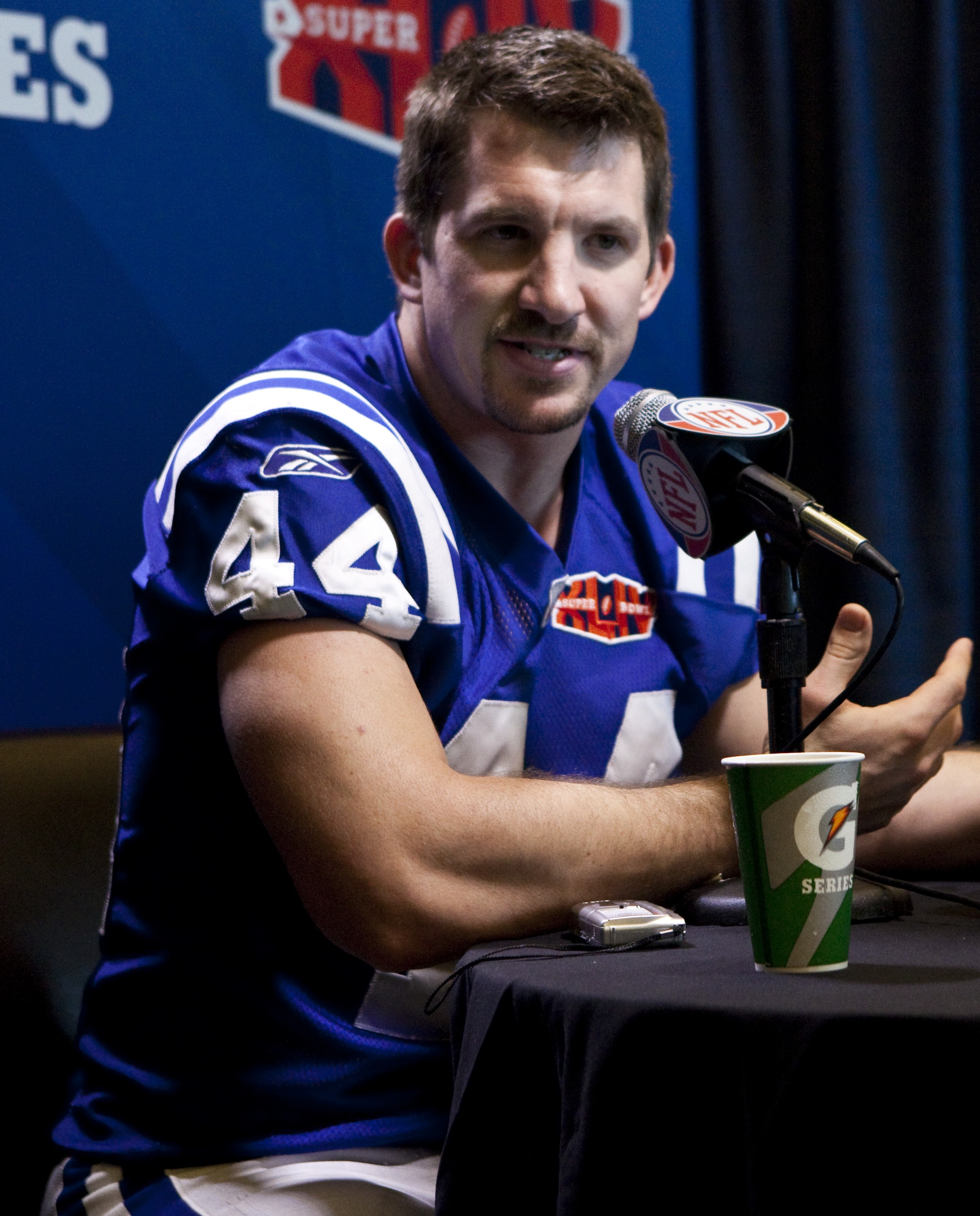 Indianapolis Colts tight end, Dallas Clark, in an interview before Super Bowl XLIV.